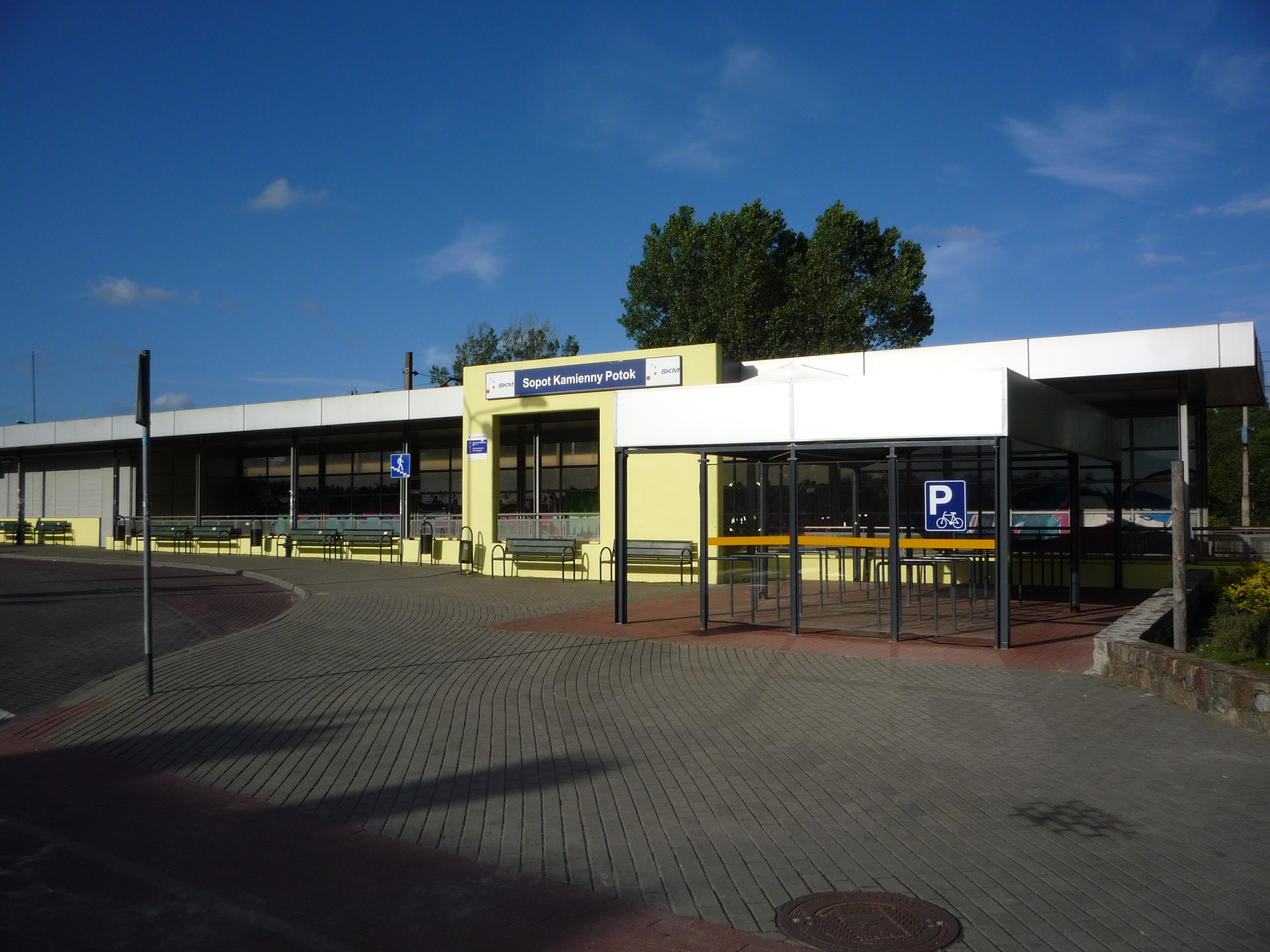 Entrance to platform on SKM station Sopot Kamienny Potok with bus stops and bicycle parking.